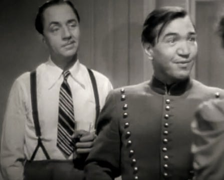 William Powell (left) & Harry Bellaver in Another Thin Man - trailer (cropped screenshot)